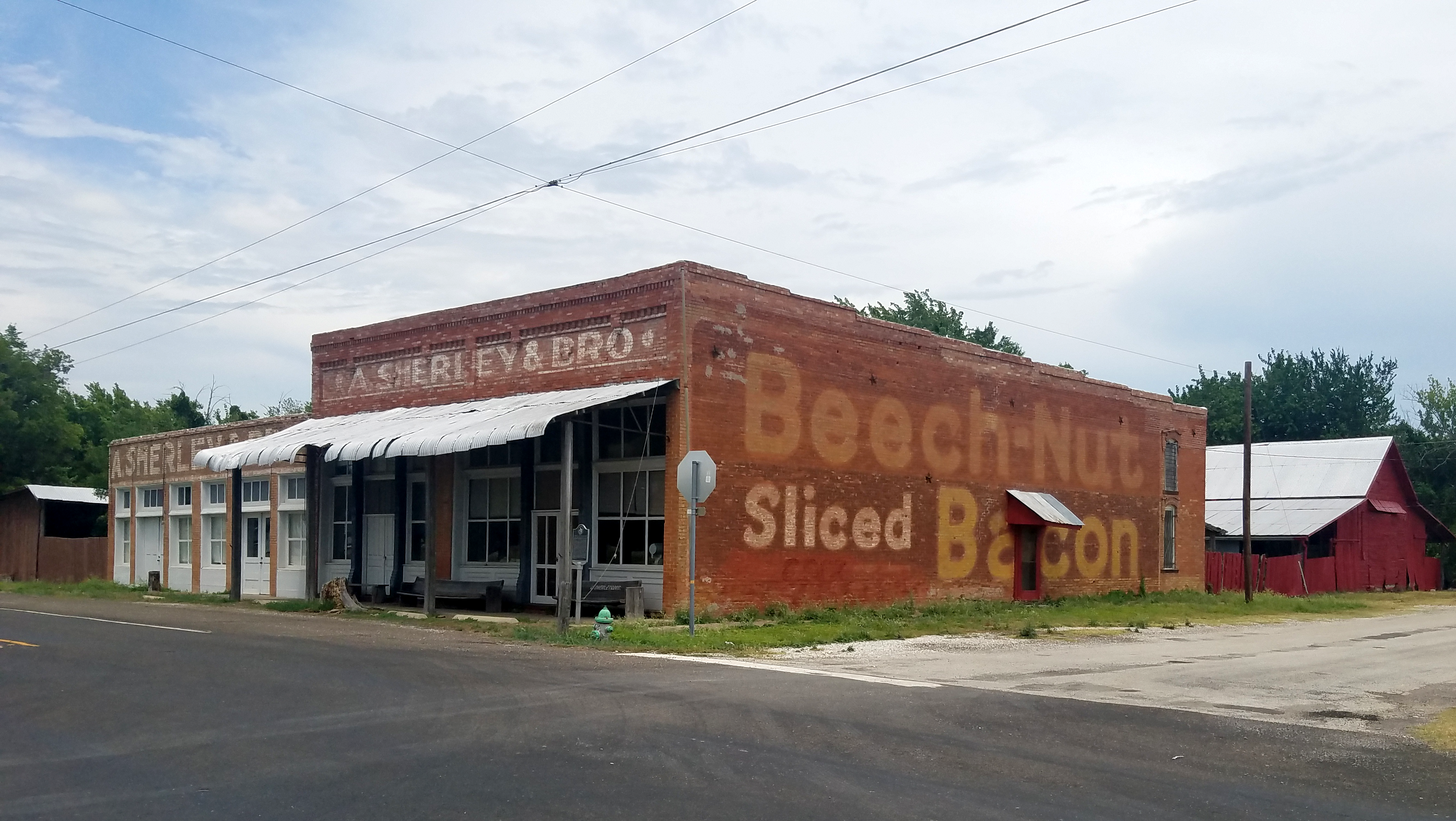 Lewis and Pauline Sherley moved to north Texas from Kentucky about 1853. When the town of Anna was established in 1872, their grandsons, brothers Andrew and Fred Sherley, opened a hardware store. In 1894 they built this structure to house the business. It remained in the family after the store closed in 1979. Over time they were undertakers as well as purveyors of furniture, farming implements and machinery, wagons, cotton, grain and groceries. Wagon-weighing scales in front of the building were removed when the road was widened. The structure is a fine example of an early Texas commercial building, retaining the original canopy and painted signs. Minimal Victorian-era detailing includes corbelled brickwork in the parapet and paneled kickplates on storefront display windows.